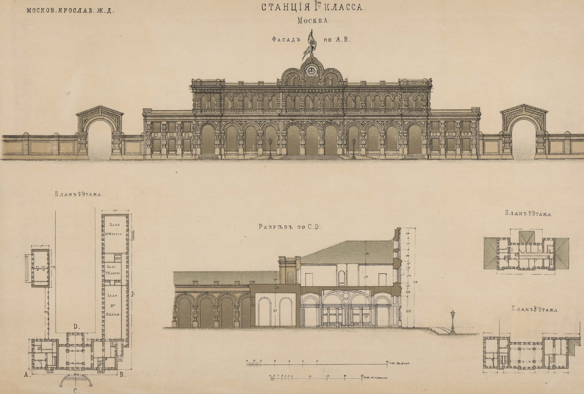 Moscows station. Moscow–Yaroslavl railway. Russian Empire